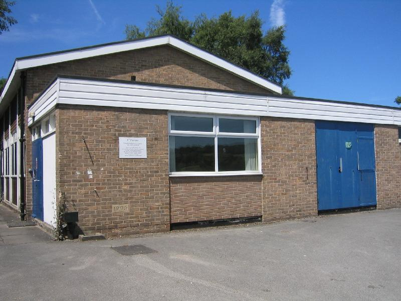 taken by Deben_dave